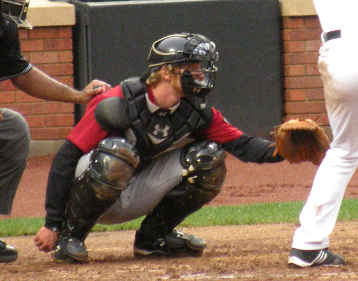 J. R. Towles